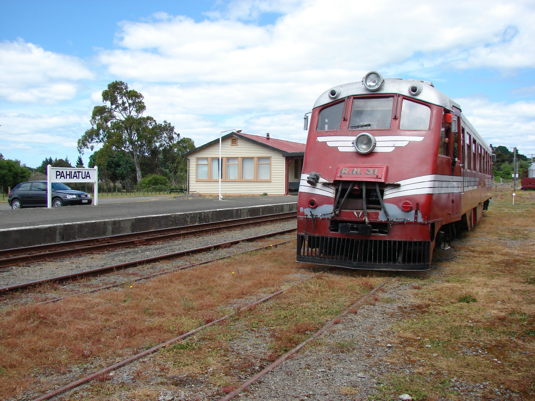 RM 31 (Tokomaru) going for a run through the Pahiatua station yard. Photographed by Matthew25187 on 2007-12-16.